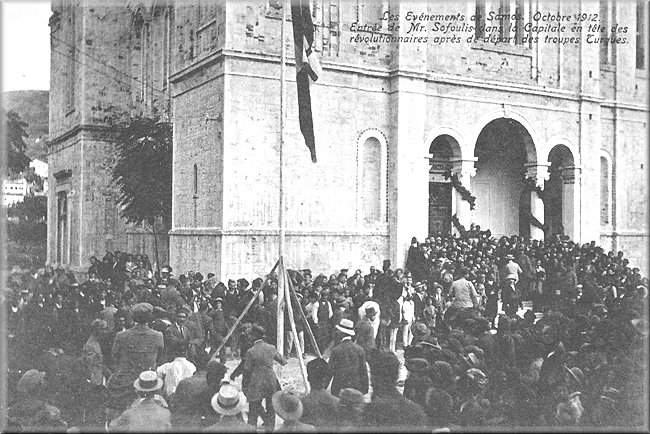 Samos 1912. Rattachement à la Grèce. Union with Greece.